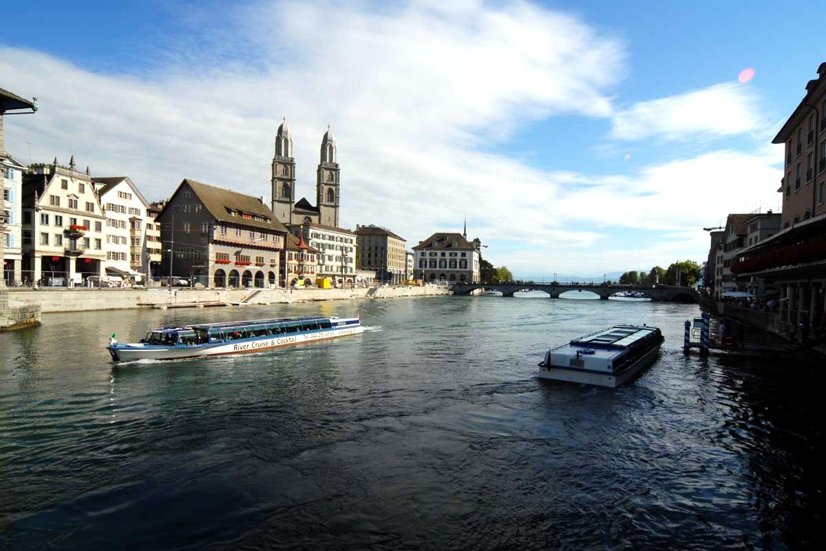 Limmat river in Zürich